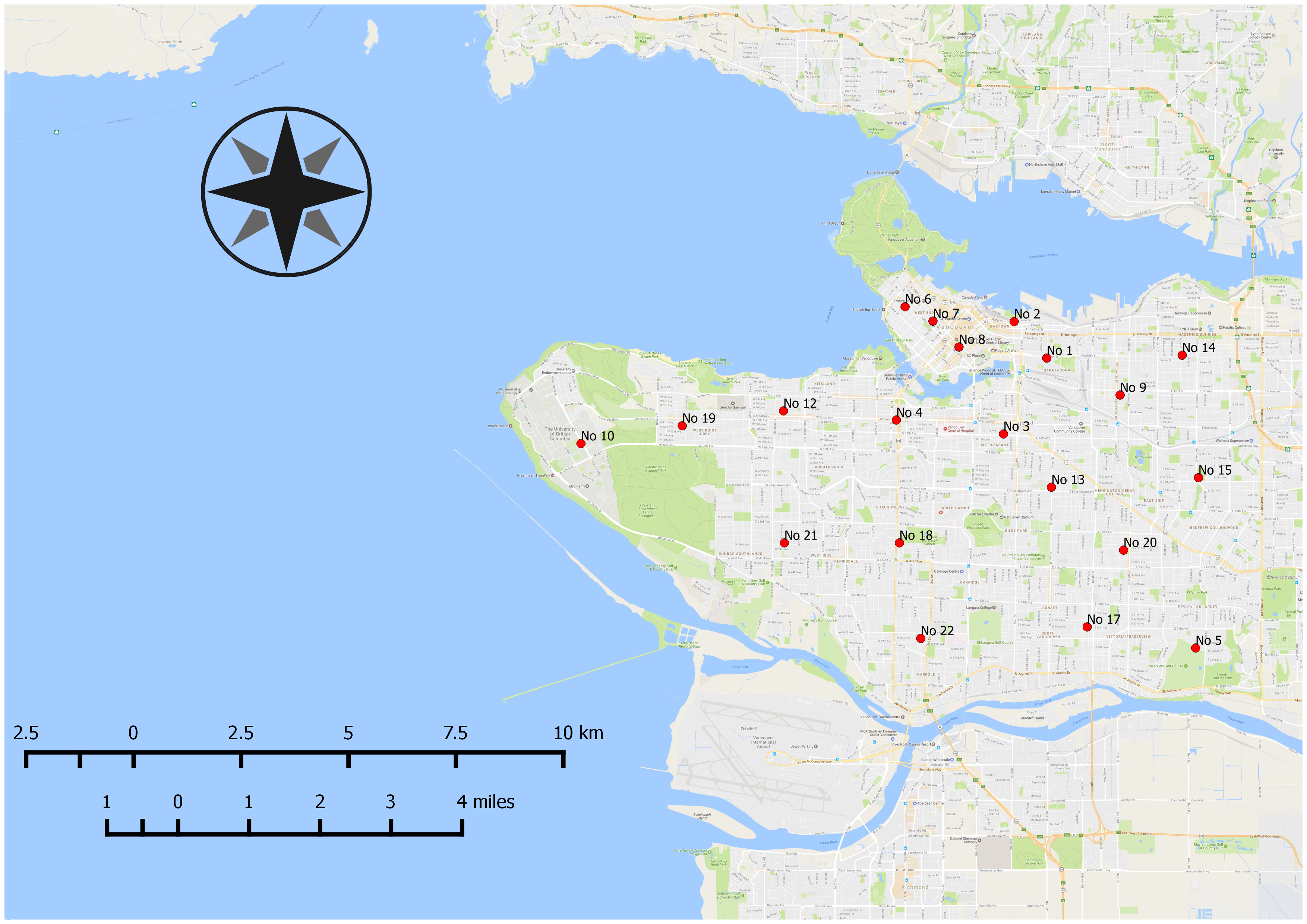 map of the fire and rescue service halls in Vancoucer, BC, Canada